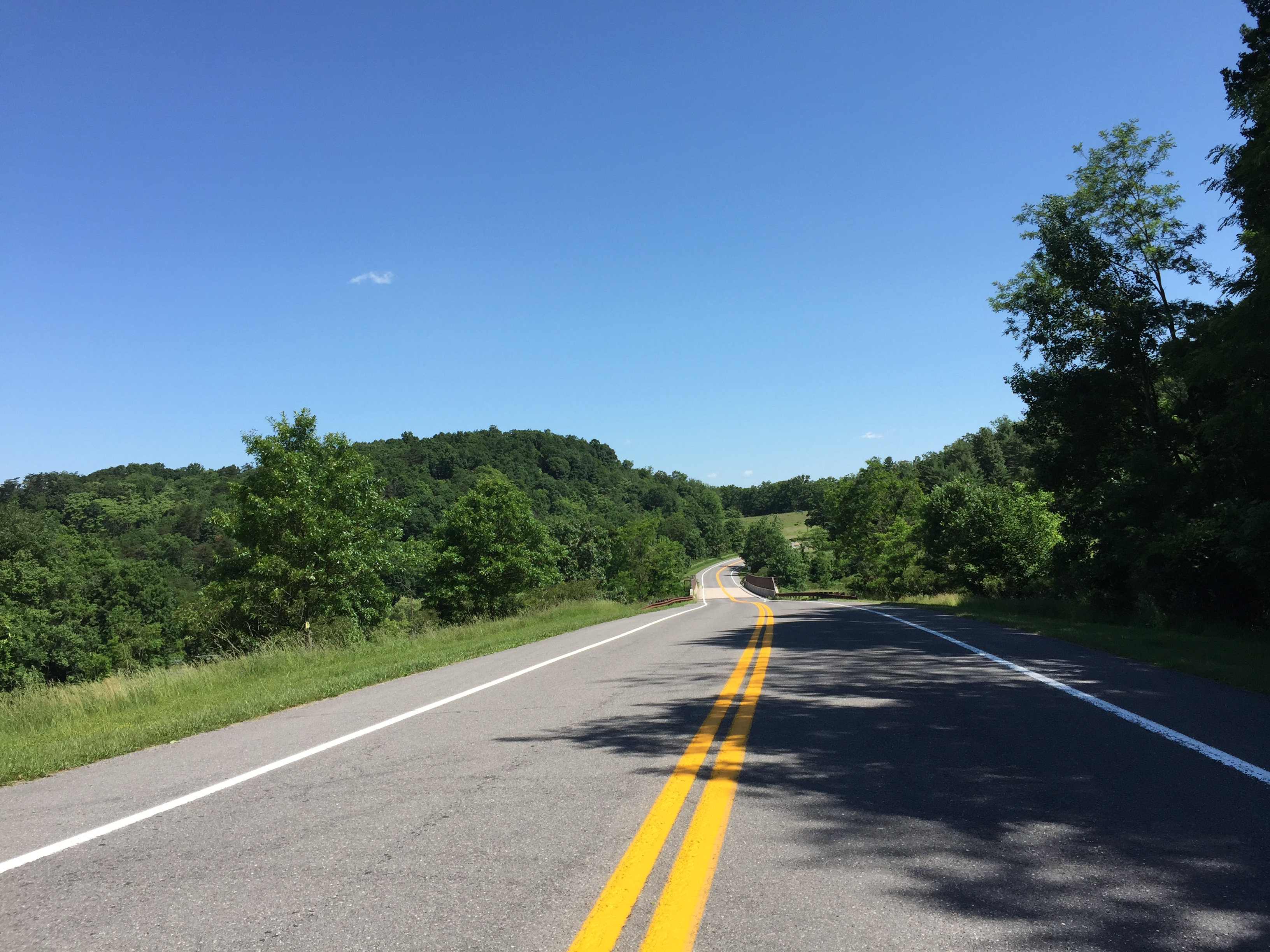 View north along Maryland State Route 948 (Jeffries Road) just south of Interstate 68 and U.S. Route 40 (National Freeway) in Pleasant Grove, Allegany County, Maryland